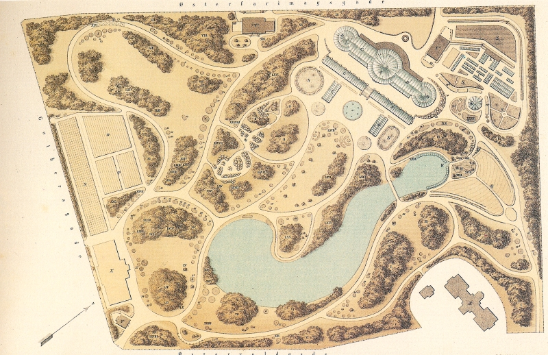 Plan of Copenhagen Botanical Garden in Copenhagen, Denmark